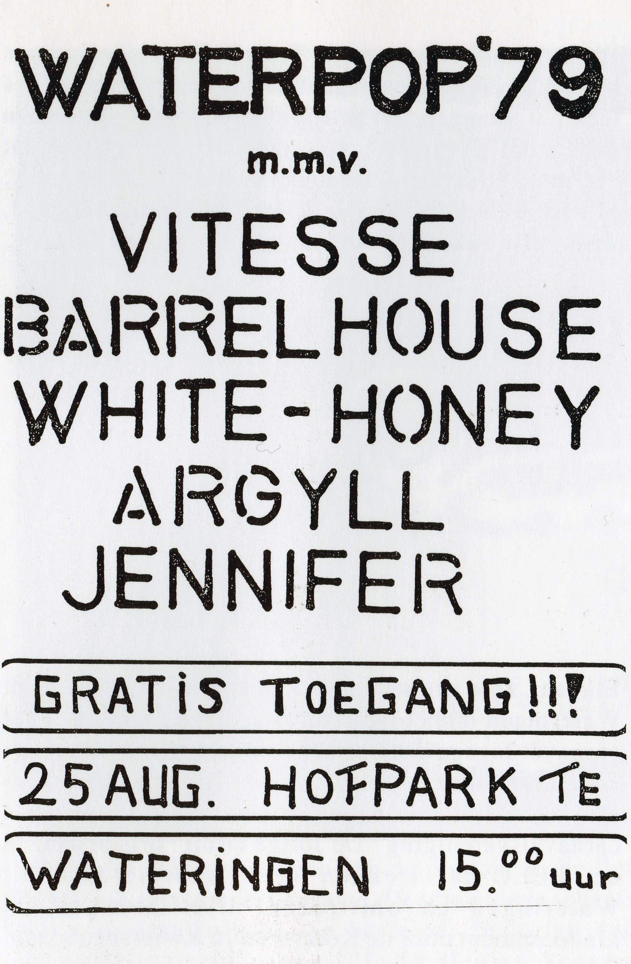 Poster for the second edition of Waterpop